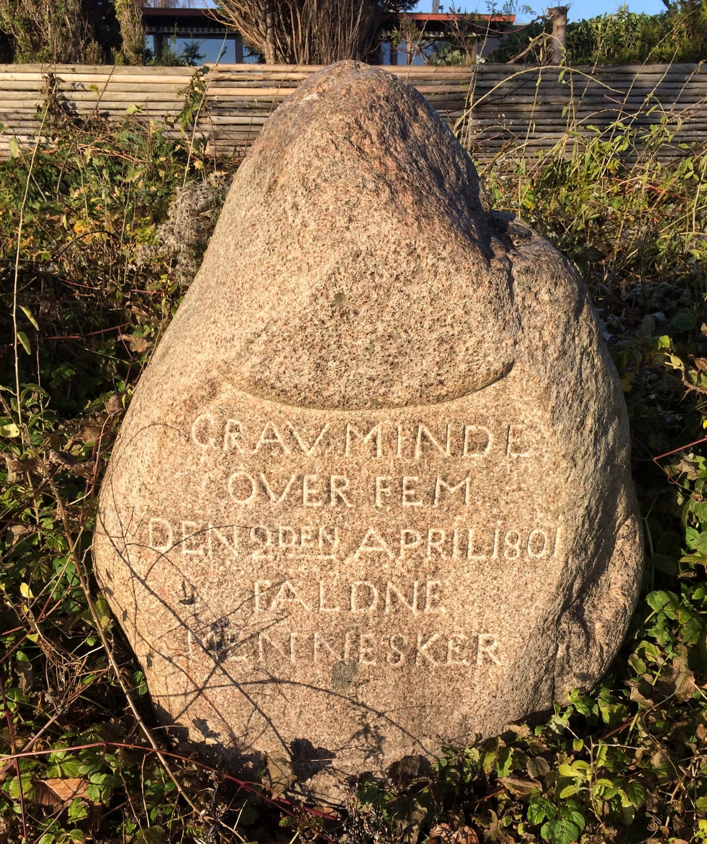 Memorial stone in memory of fallen at the Battle of Copenhagen on 2 April 1801. Memorial stone placed at Strandvejen (Kystvejen) just north of Copenhagen